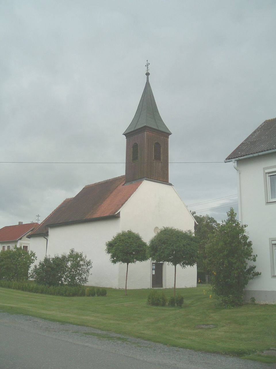 Rom. Cath. church in Siget in der Wart (Őrisziget)